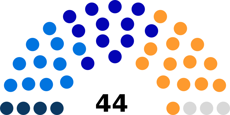 Seats diagramme of Swiss Council of States (1869)